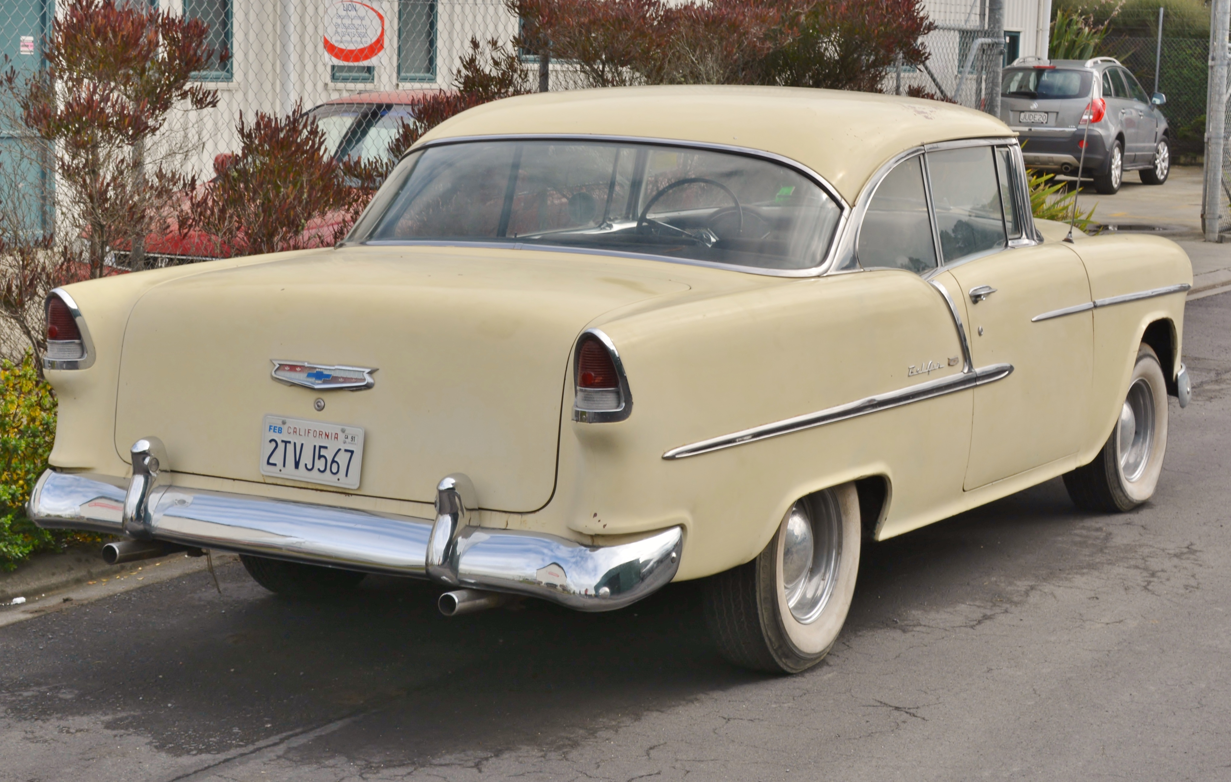 At Swanson,Auckland.New Zealand